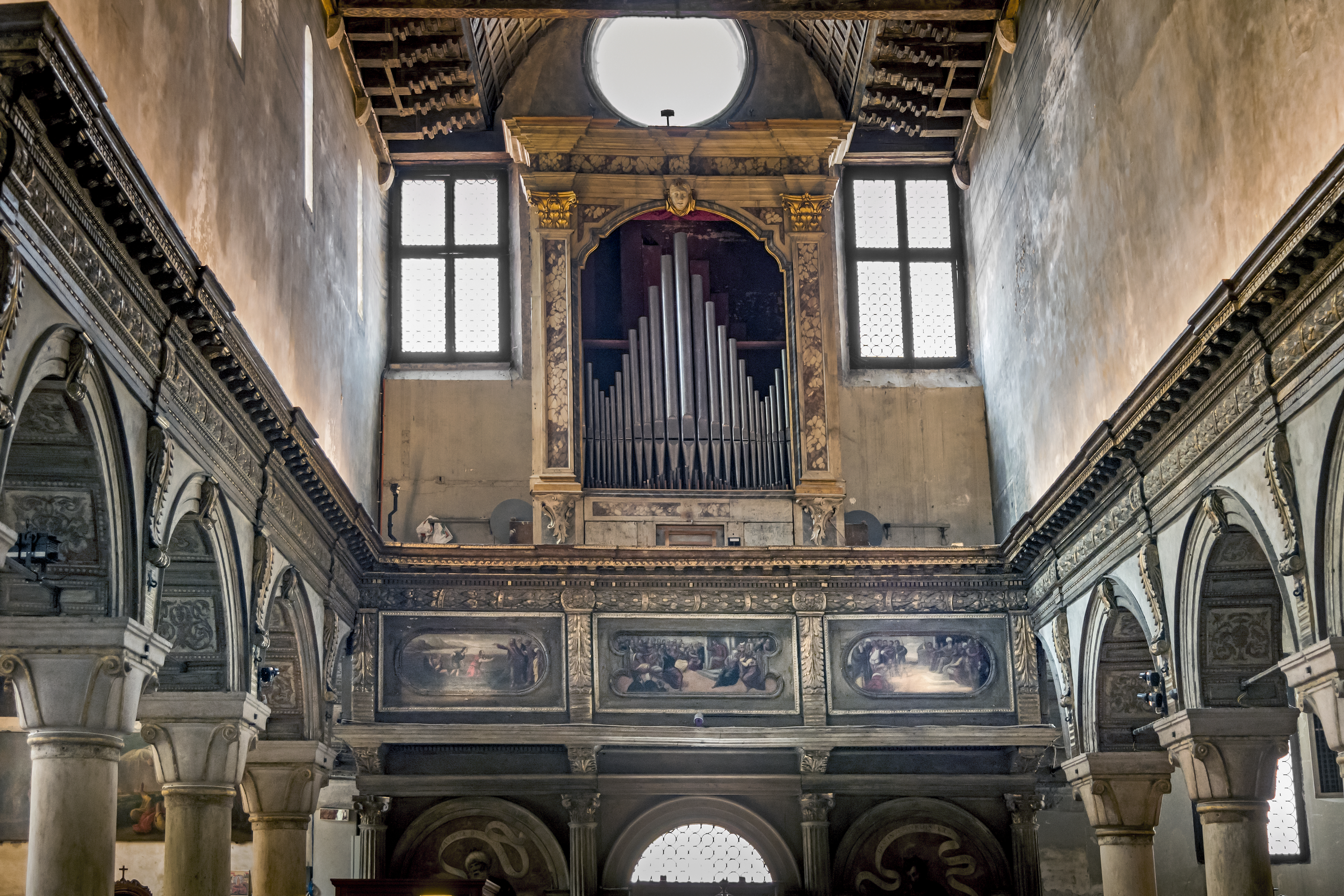 San Giacomo dell'Orio, Venice. The counter-facade. The organ: in 1400 there is already an organ in the church which was rebuilt the first time in 1532. The current one is the work of Gaetano Callido, completed in 1776. The cantoria shows in the middle: Dispute of Jesus with the teachers of the temple ; on the left: "Call of the Apostles"; on the right: "Martyrdom of Saint James" three paintings by Andrea Schiavone of the 16th century.